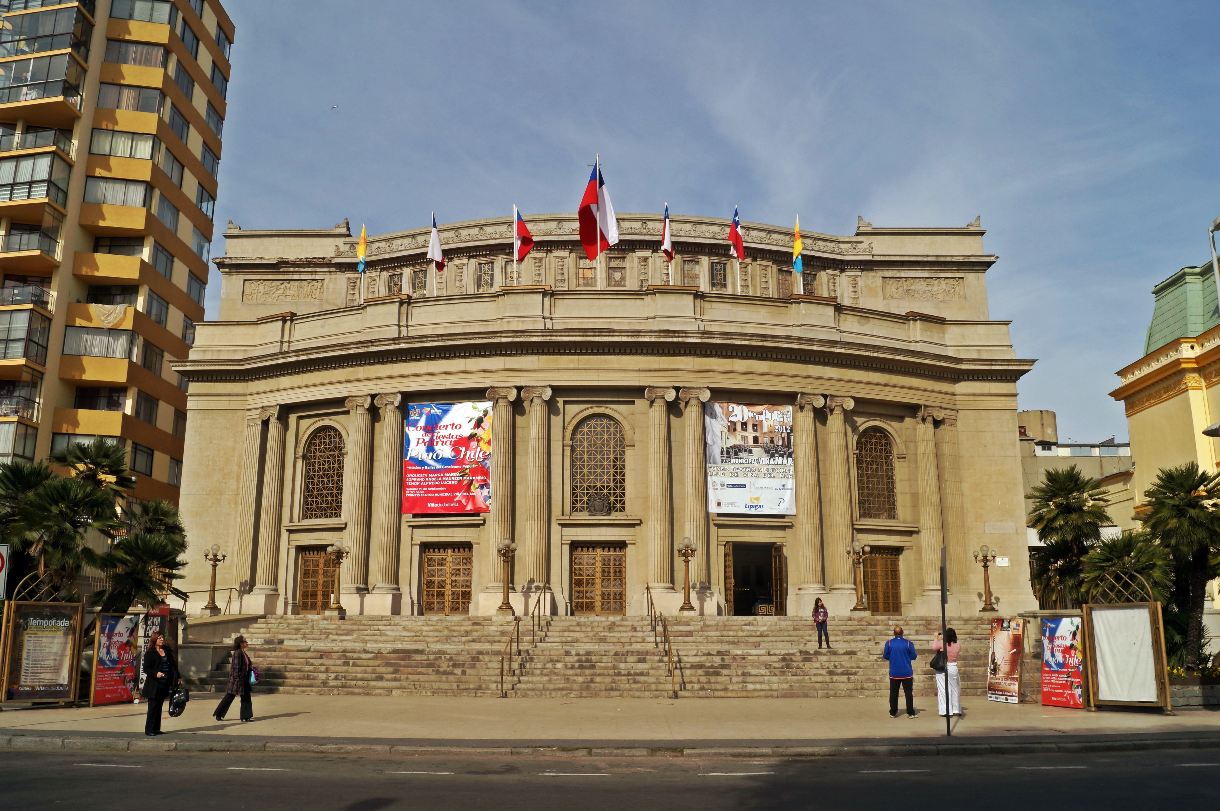 This is a photo of a national monument in Chile: 2136